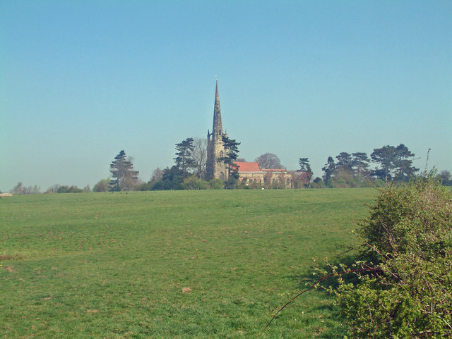 Clifton Campville Church The church at Clifton Campville viewed from the footpath stile to south where the footpath end at a junction of four roads.